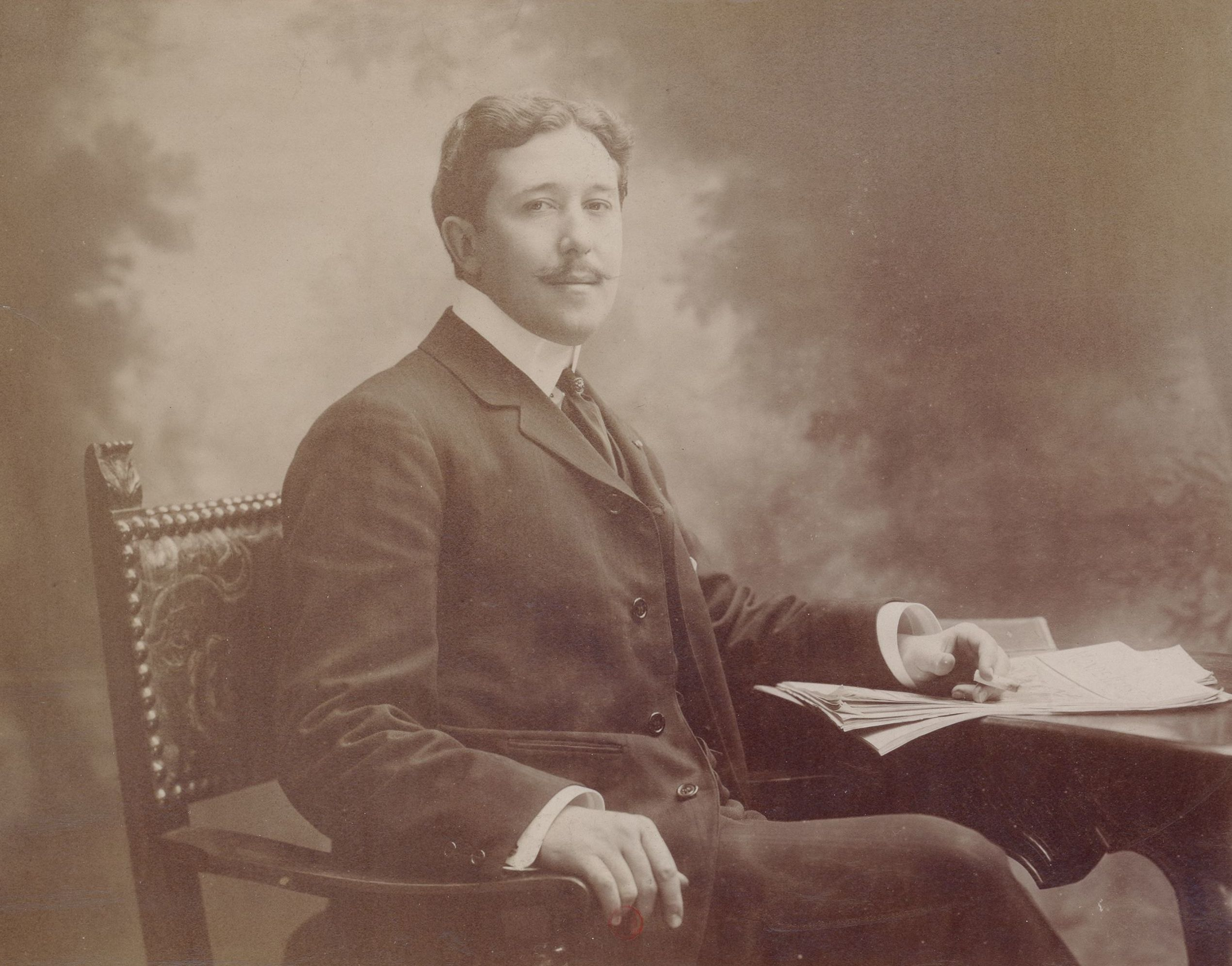 Portrait of Jean-José Frappa (1882-1939) by Nadar